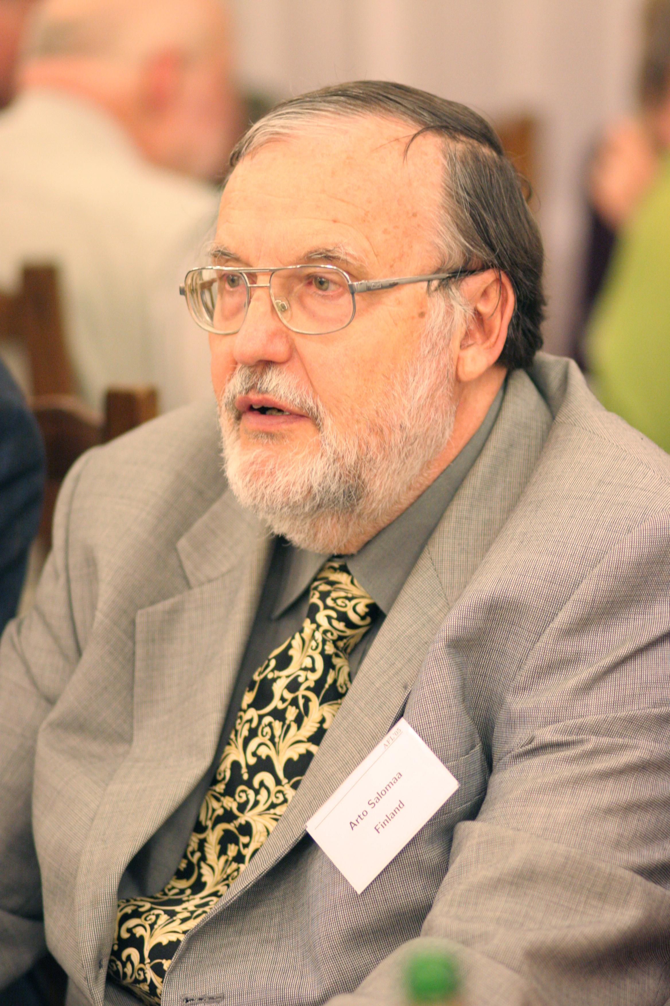 Portrait of Academician Arto Salomaa. Taken by Alexander Okhotin on 18 May 2005 in Dobogoko, Hungary, at the conference banquet of the AFL 2005 conference. Taken using a Canon 100mm f/2.0 lens mounted on 20D body, wide open, 1/125, ISO 1600, white balance digitally corrected.